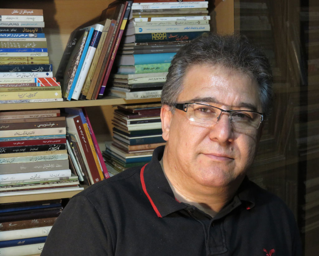 Mahdi Khodapanah , One of the Contemporary artists of Persian Calligraphy & Traditional Painter